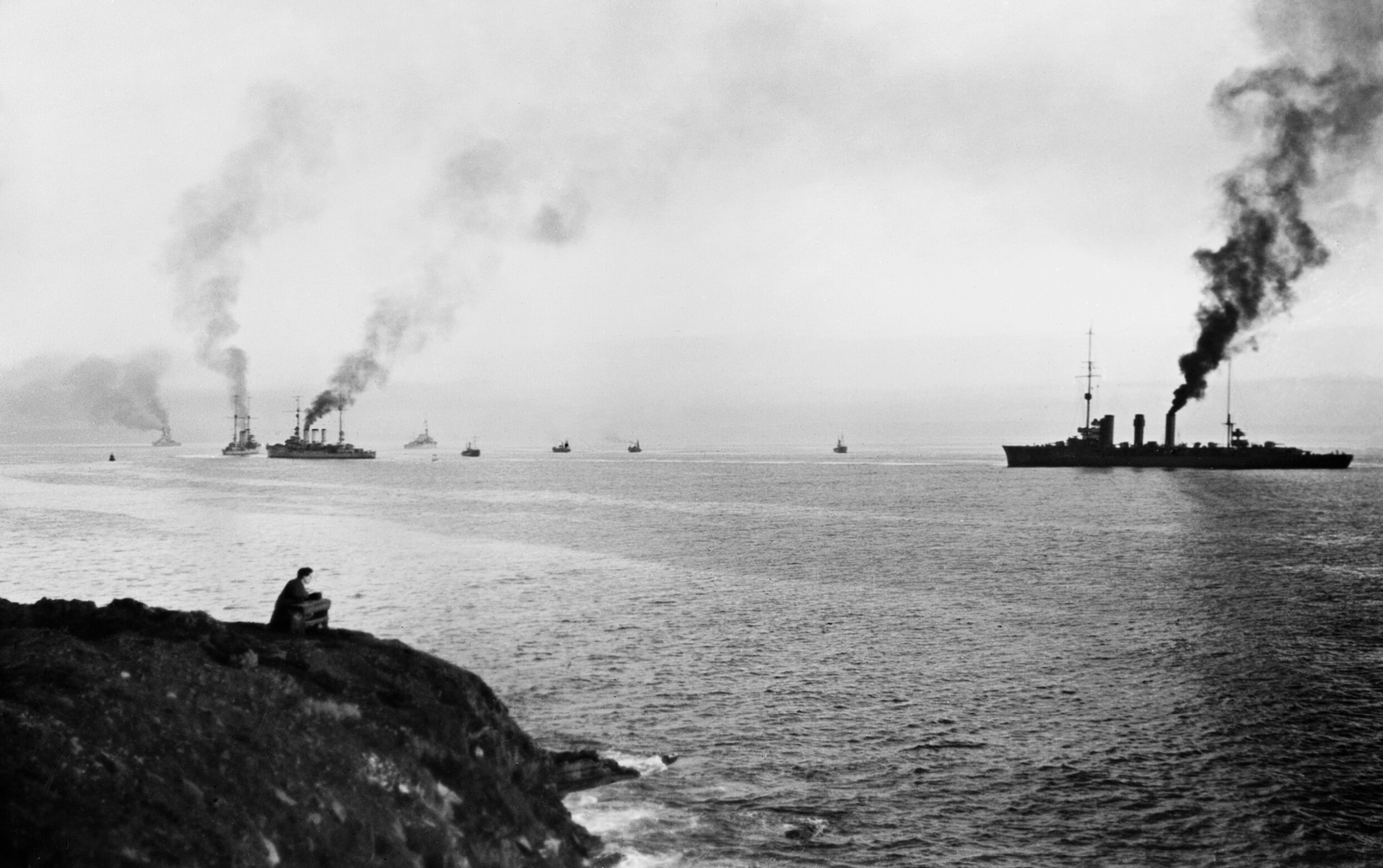 Internment at Scapa Flow 24 November 1918 - 20 June 1919: SMS EMDEN, FRANKFURT and BREMSE entering Scapa Flow.